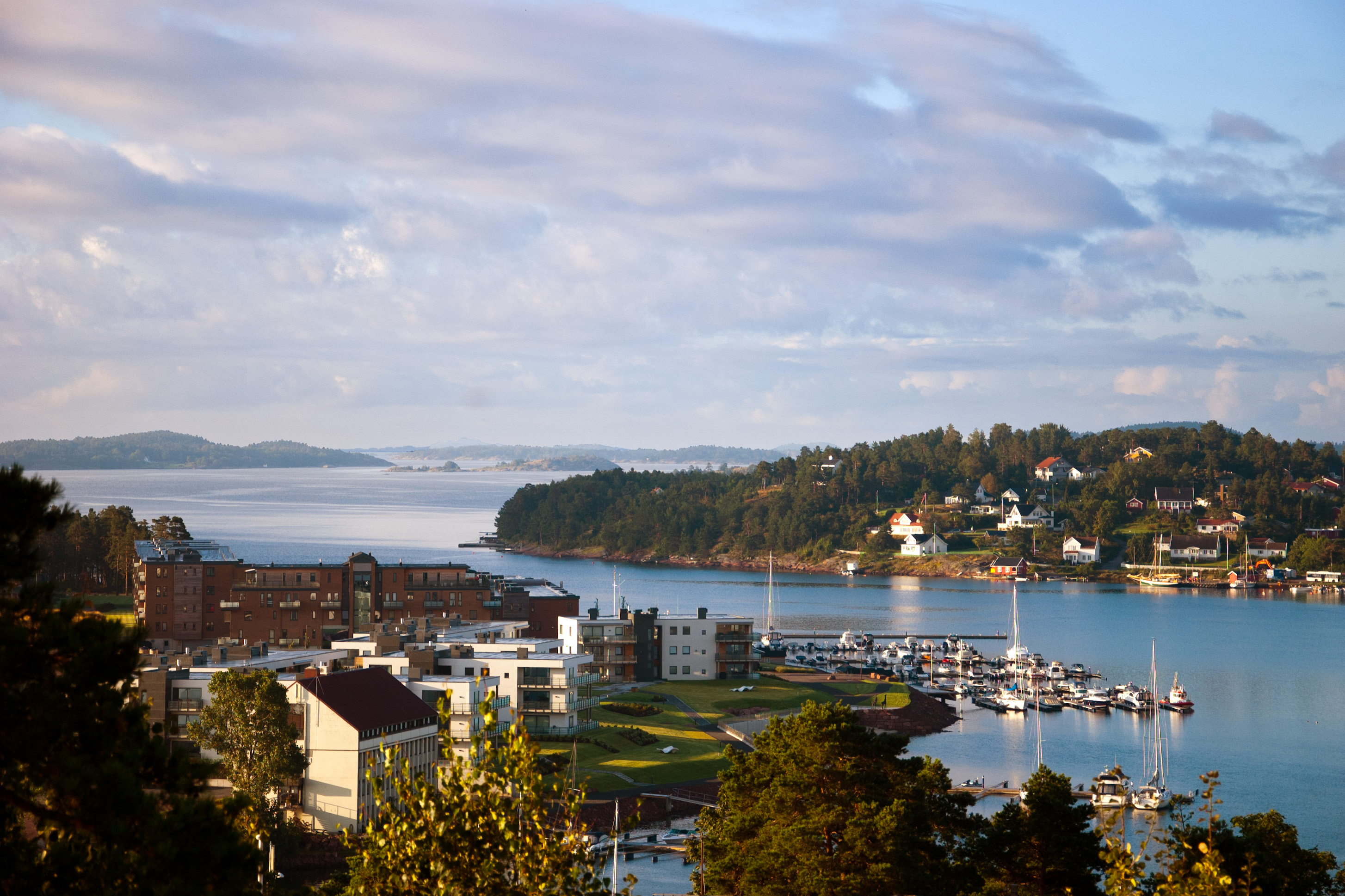 The islands Jarlsø/Jersøy (left) and Husøy (right) in Tønsberg, Vestfold, Norway. Seen from the hill Husvikåsen.